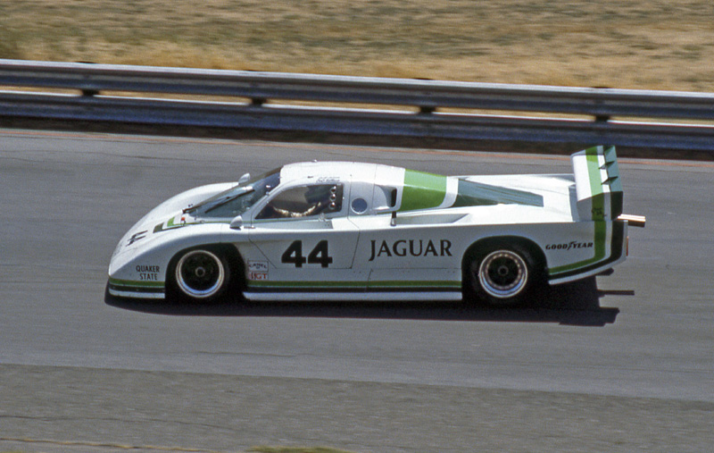 Bill Adam and Bob Tullius co-drove a Jaguar XJR-5 at the 1983 IMSA Camel GT race at Sears Point Raceway in Sonoma, Calif.